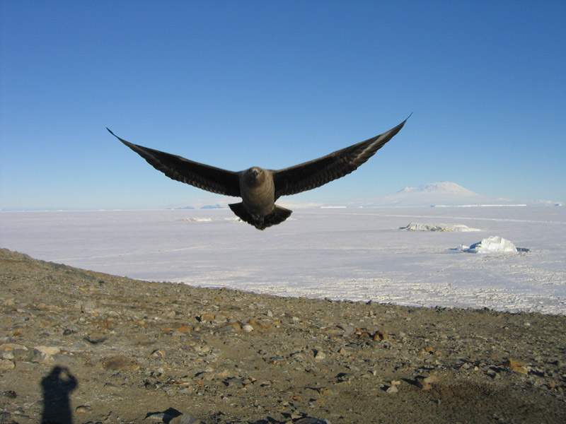 Skua in Antarctica. Coast Guard Cutter Polar Sea, Antarctica crew photos (2004).